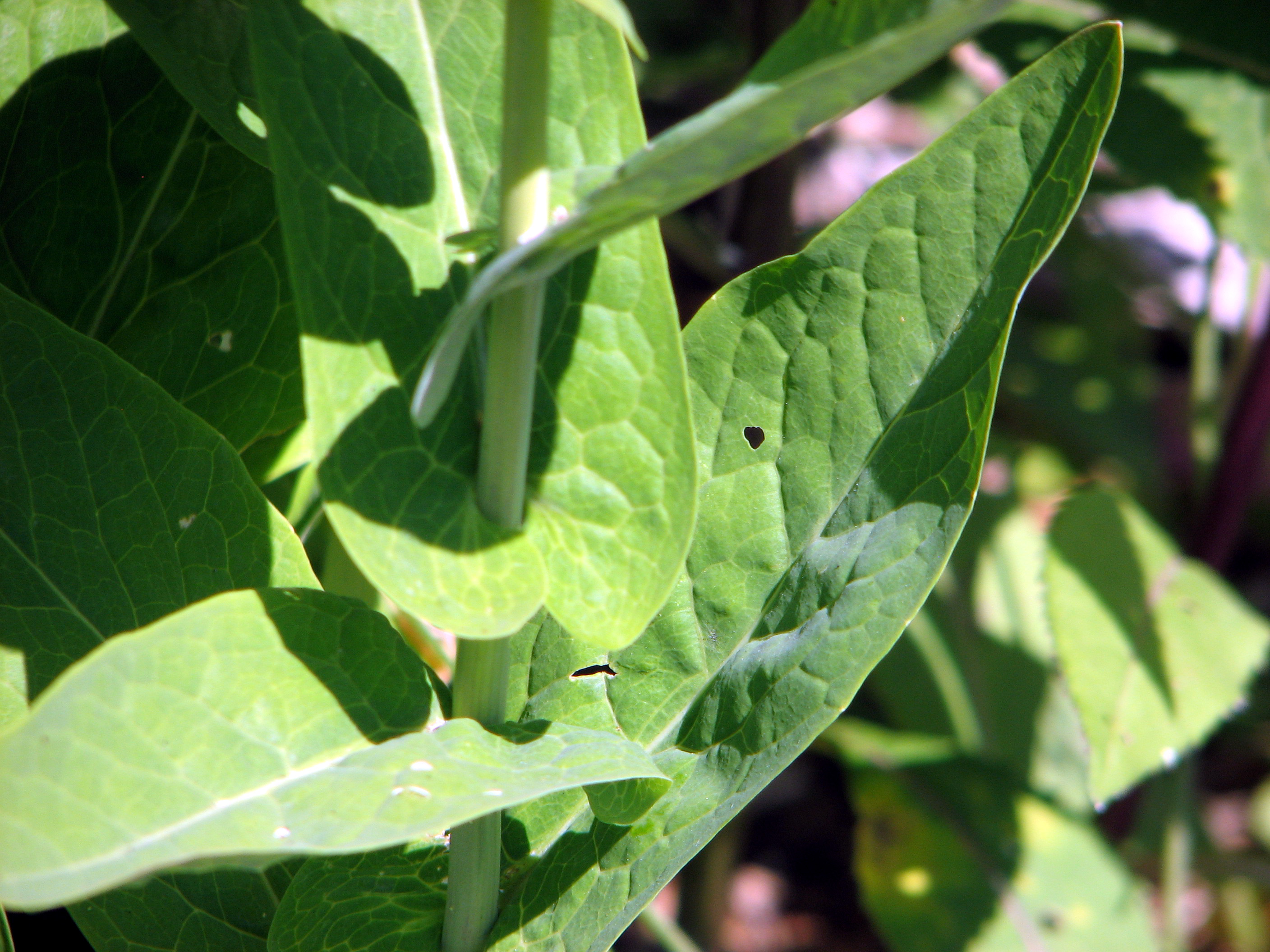 Peltaria alliacea (leaves) found on Niederschoeckel near Graz, Styria (Austria)